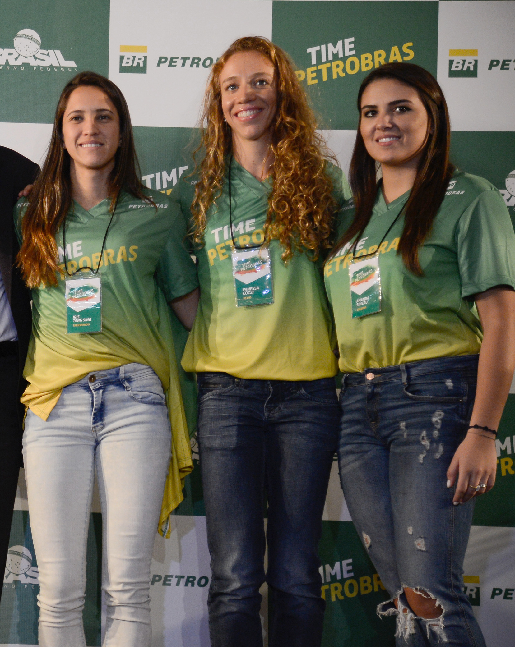 Iris Sing, Vanessa Cozzi, Amanda Simeao 2016 - Rio de Janeiro